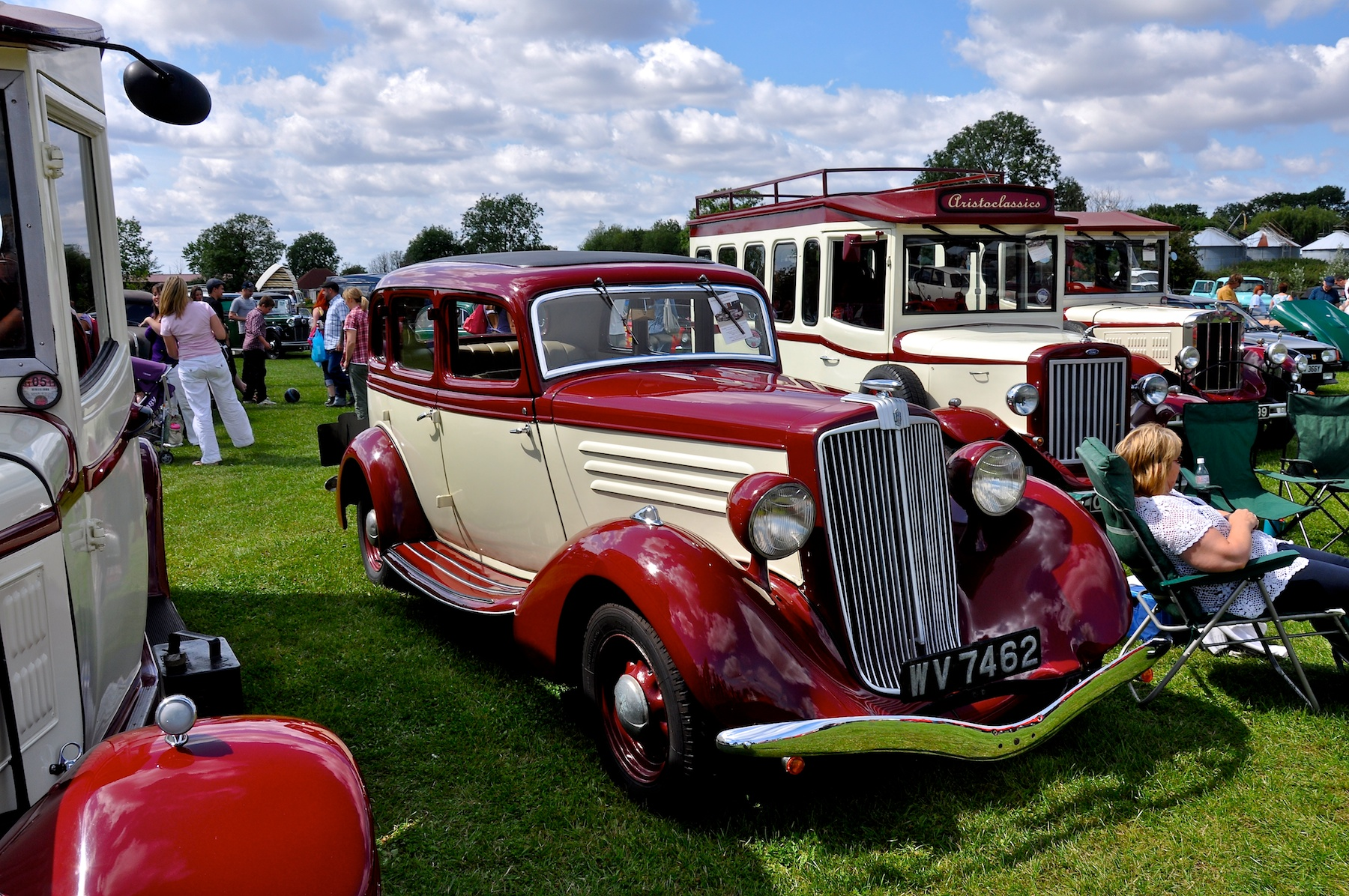 1934 Hupmobile 417 W. With a 2.5 liter engineBig Wheels Car Show